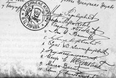 Signatures of Black Hand members, from the constitution dated September 6, 1911.